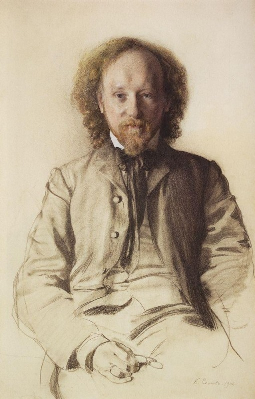 Vyacheslav Ivanov by K. Somov 1906 black & white version